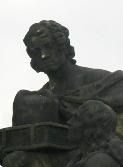 Ferdinand Maxmilian Brokoff: St Francis Xavier (detail) (1711), self-portrait. Prague, Charles Bridge.